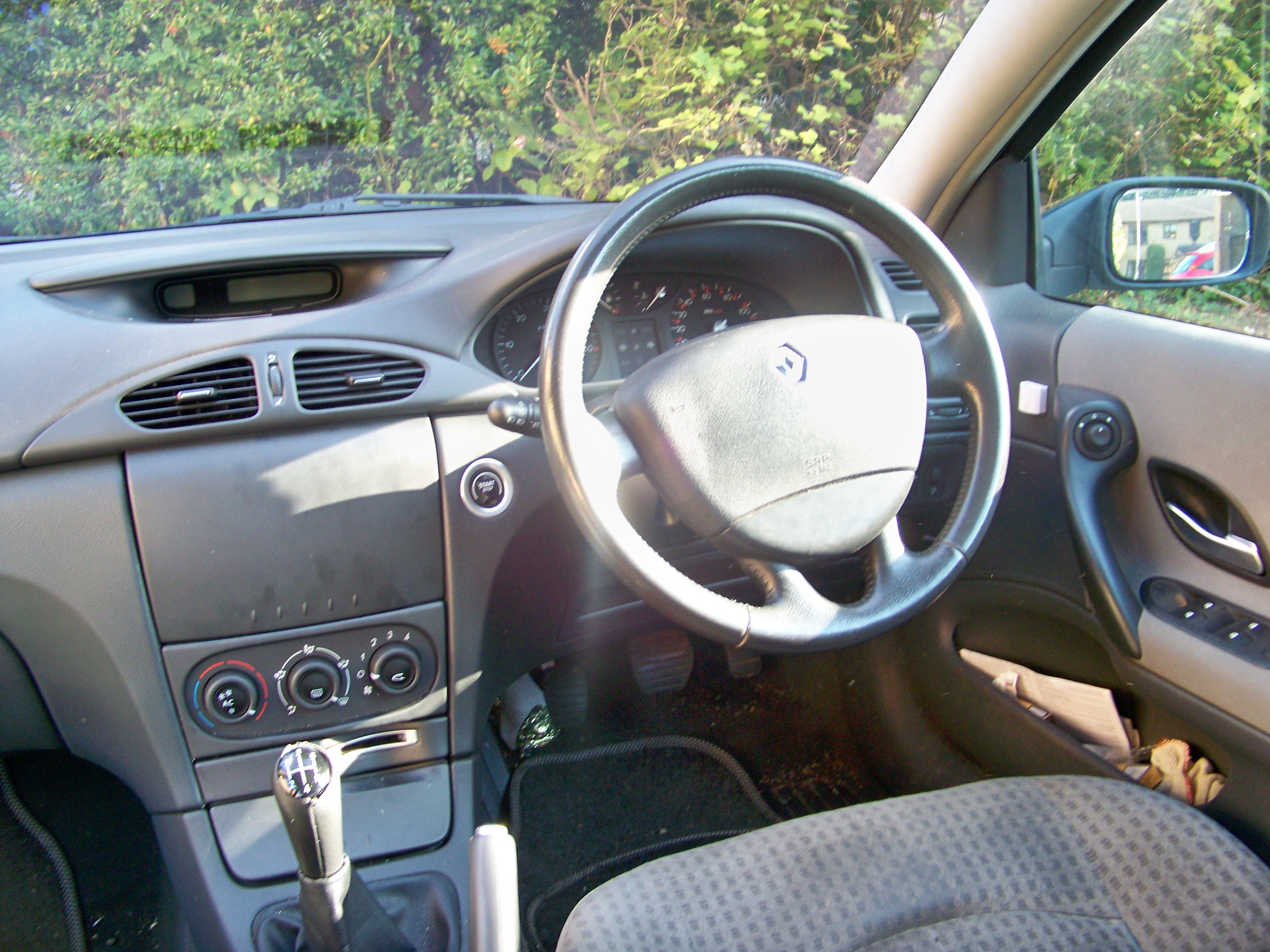 The interior of a 2003, RHD, Renault Laguna markII built for the UK market. Taken on the 10th September 2009. The vehicle is of the 'Expression' specification.